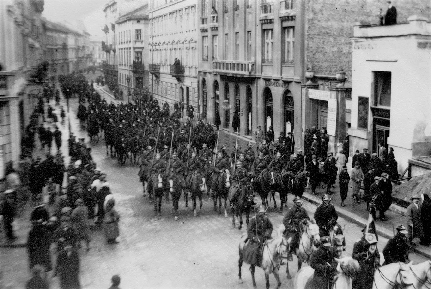 Parade of the Polish Army in Lviv